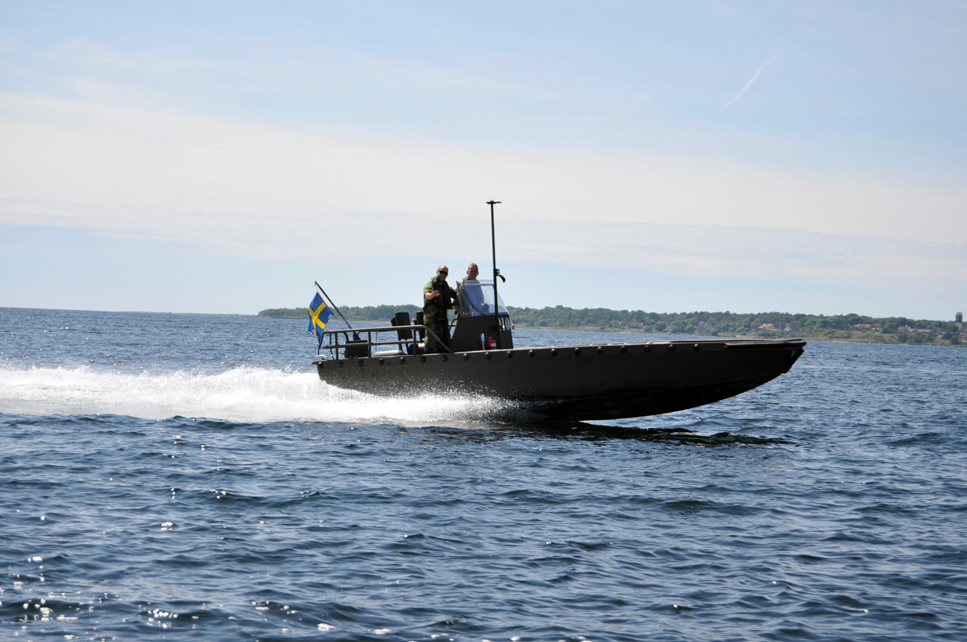 G-boat 010 during highspeed